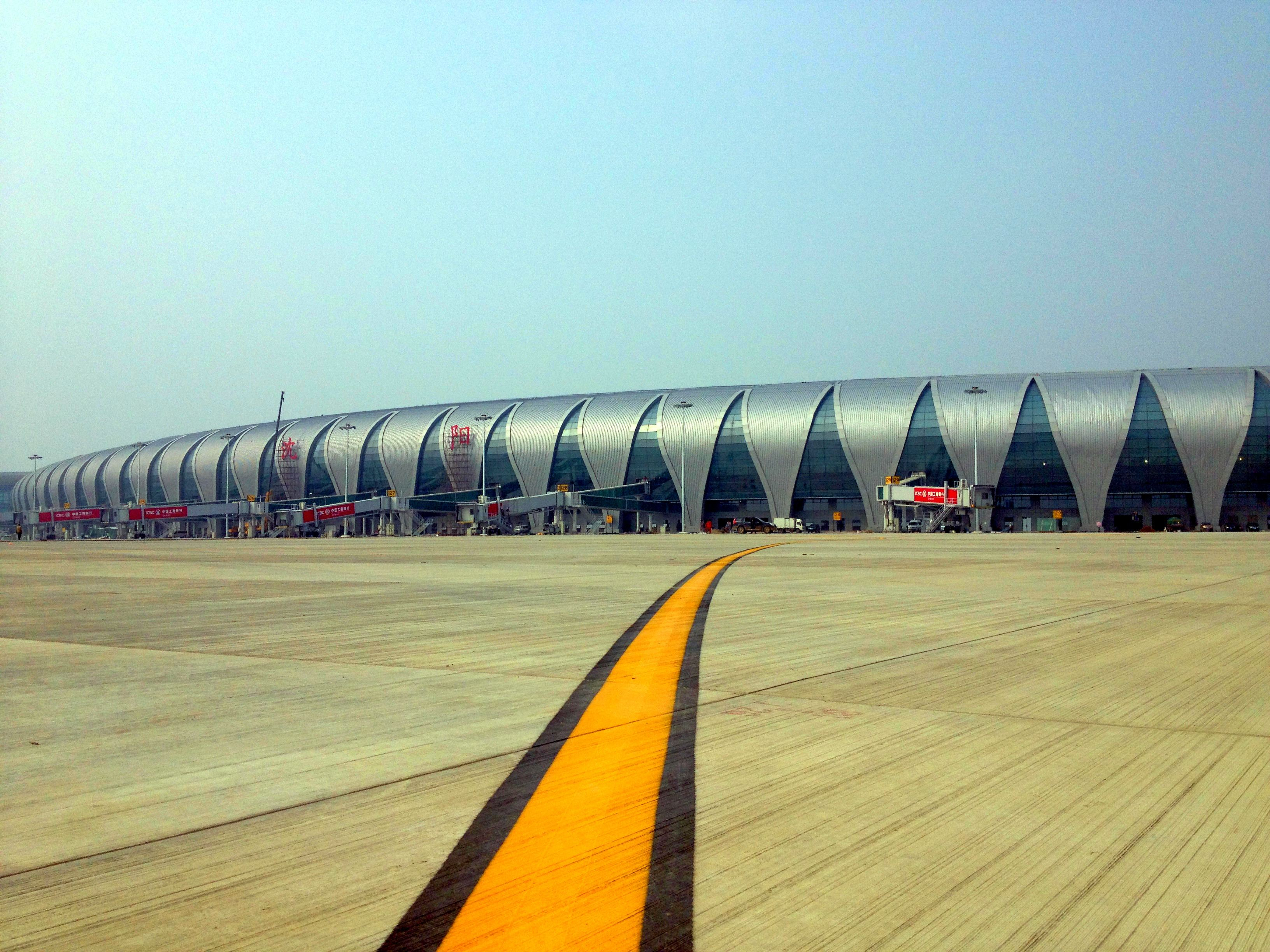 Shenyang Taoxian International Airport Terminal 3